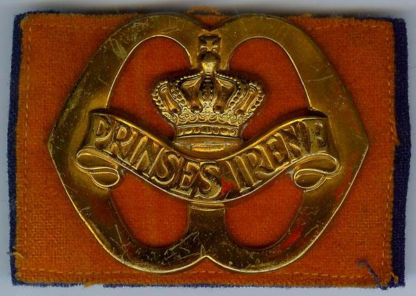 Dutch cap badge from the Fusilier Guards 'Prinses Irene'